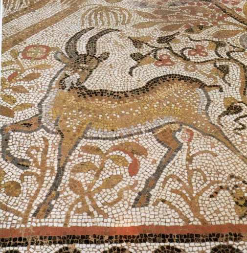 Heraclea